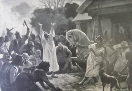 Historical painting